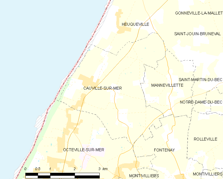 Map of French municipality Cauville-sur-Mer